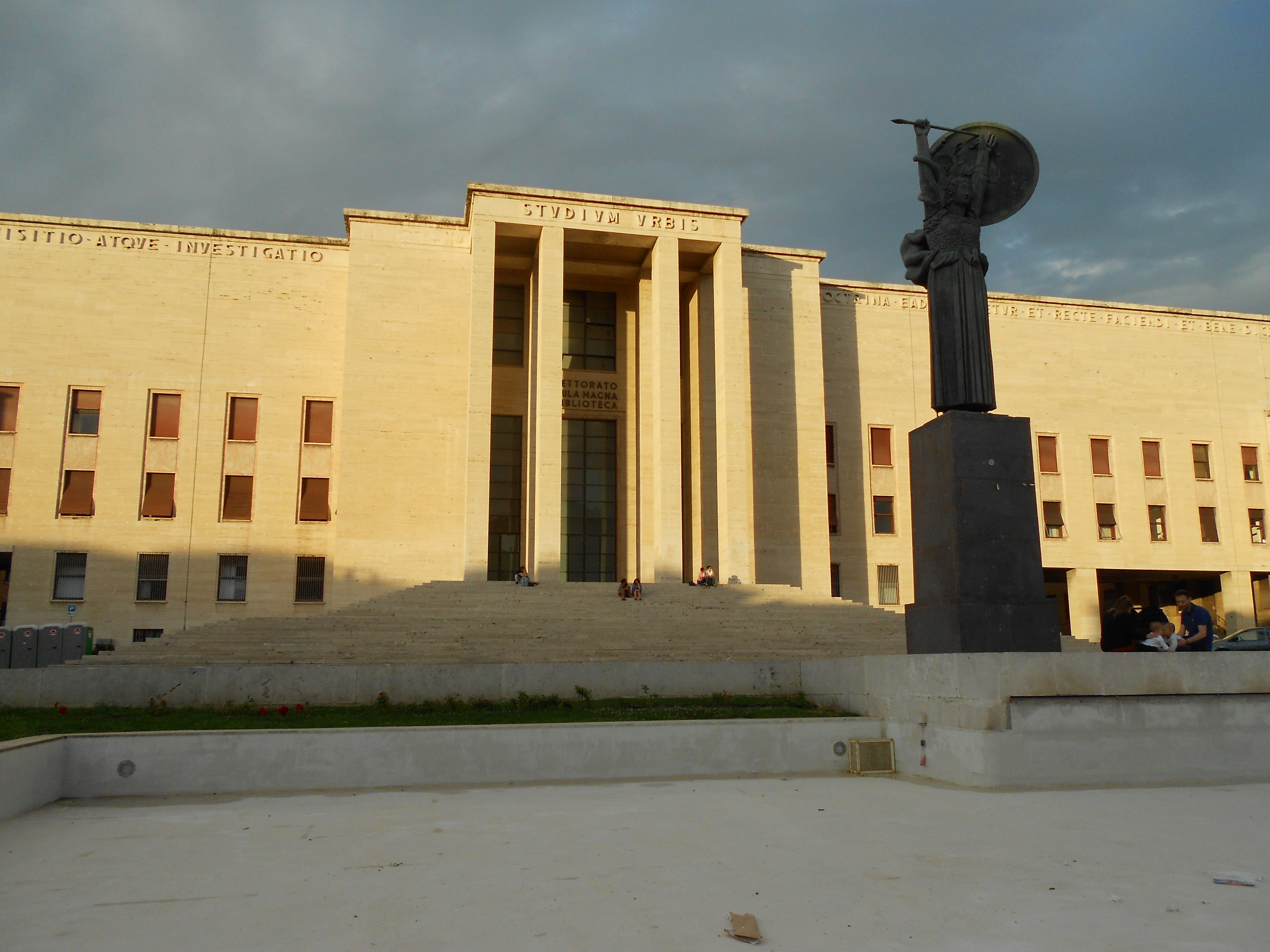 La Sapienza University of Rome.